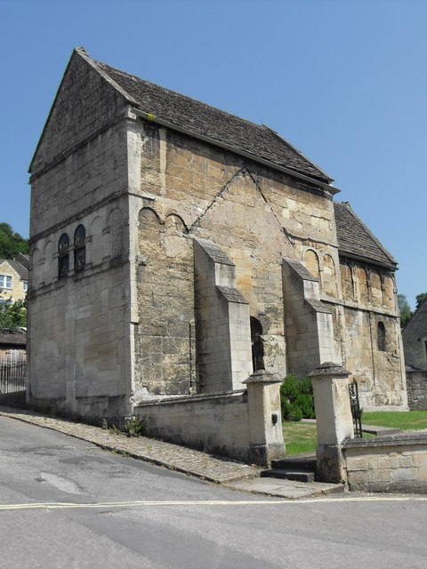 St. Lawrence Church Bradford-On-Avon One of the most complete Saxon churches in England. It is sometimes claimed that it dates from around 700AD, but a 10th century date is more likely.